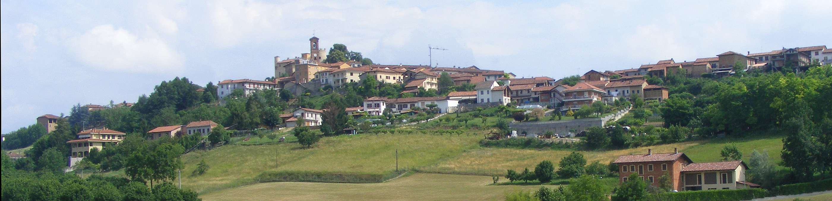 Panorama of Cortanze (AT, Italy) from SP 458